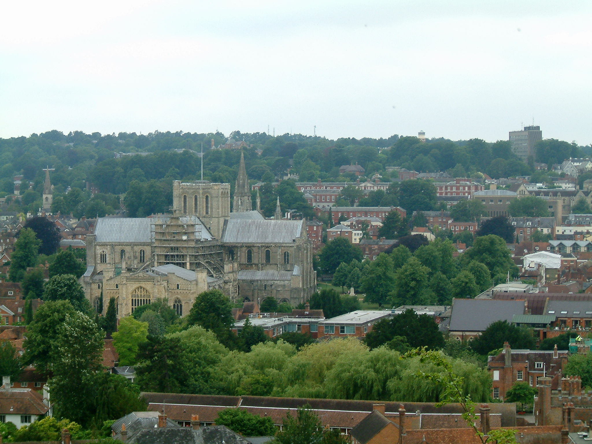 Winchester, Hampshire from St Giles' Hill